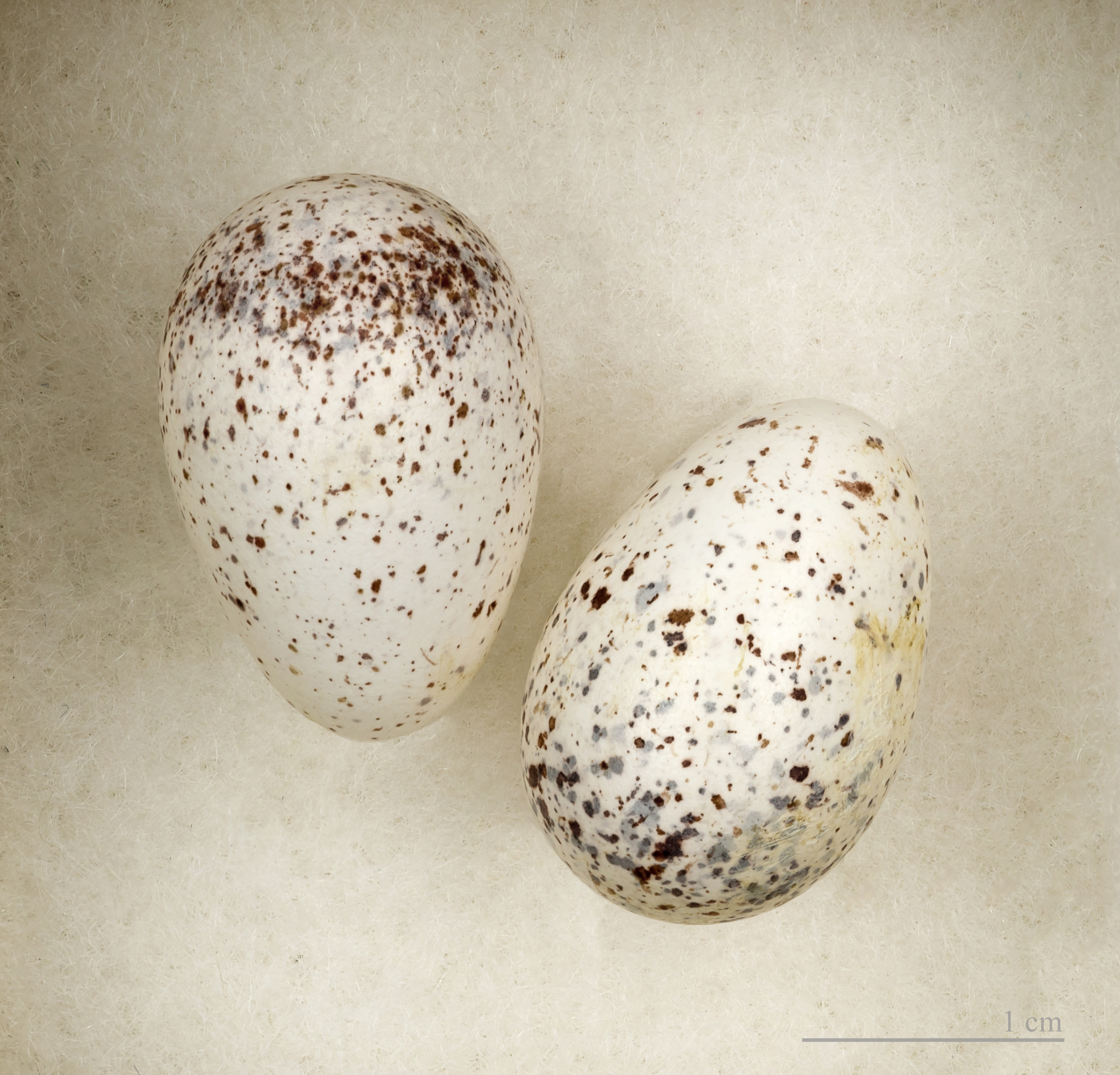 Egg of South African Cliff Swallow. Collection of Jacques Perrin de Brichambaut.